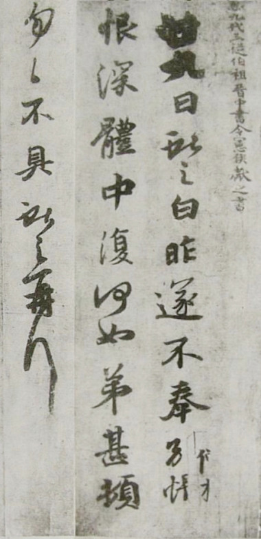 “Twenty Ninth day” letter: Replica of Calligraphy by Wang Xianzhi(ACE 344-386), ink on paper, 25cm height, One part of the collected works handscroll of Wansui Tongtien Tie in Liaoning Province Museum, China